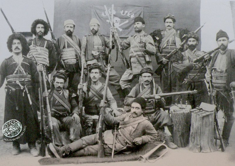 Standing, in front of the flag, from left to right: Prince Hovsep Arghutian (deputy commander of the expedition), Vartan (commander)